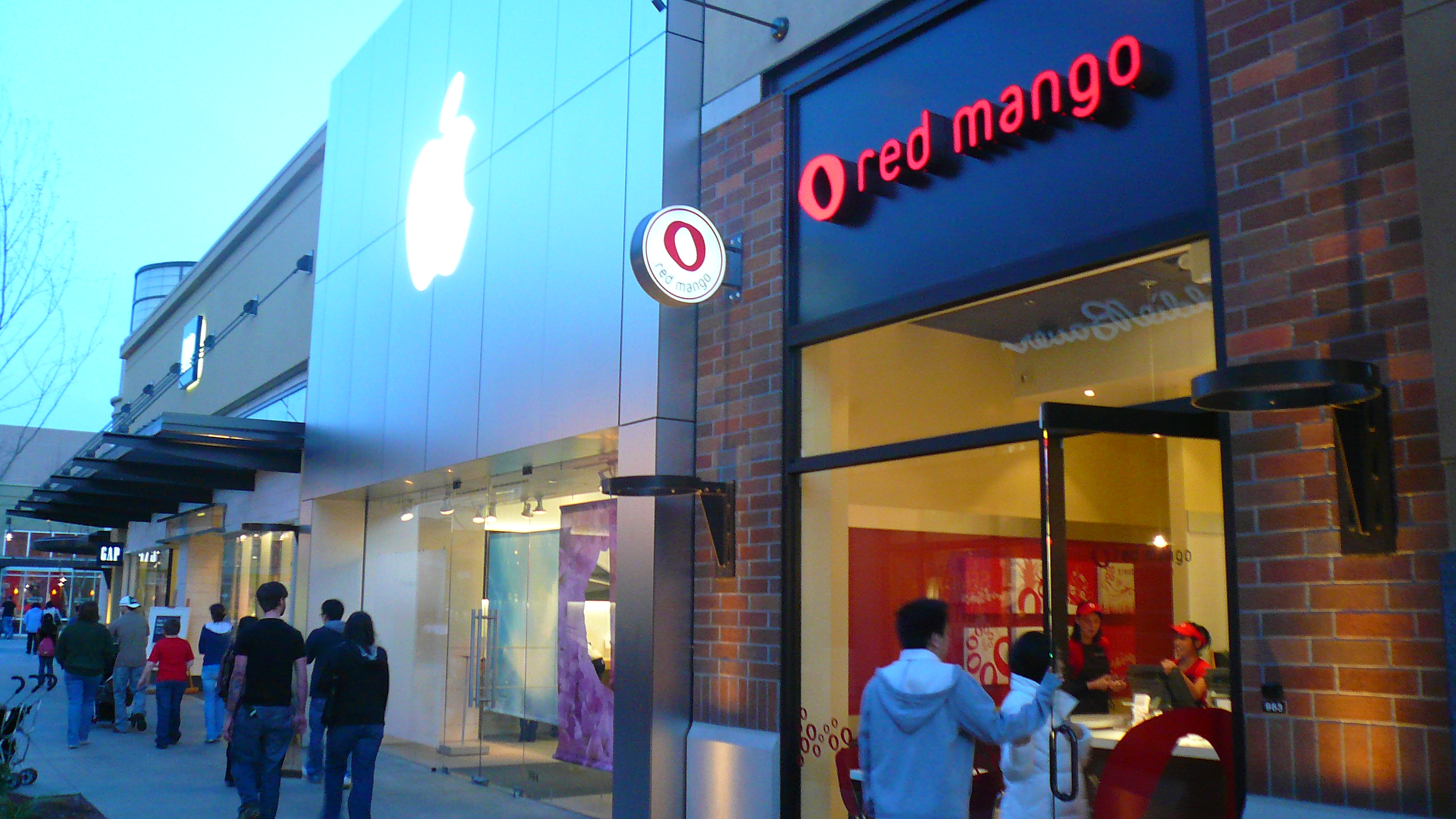 Red Mango - Alderwood Mall